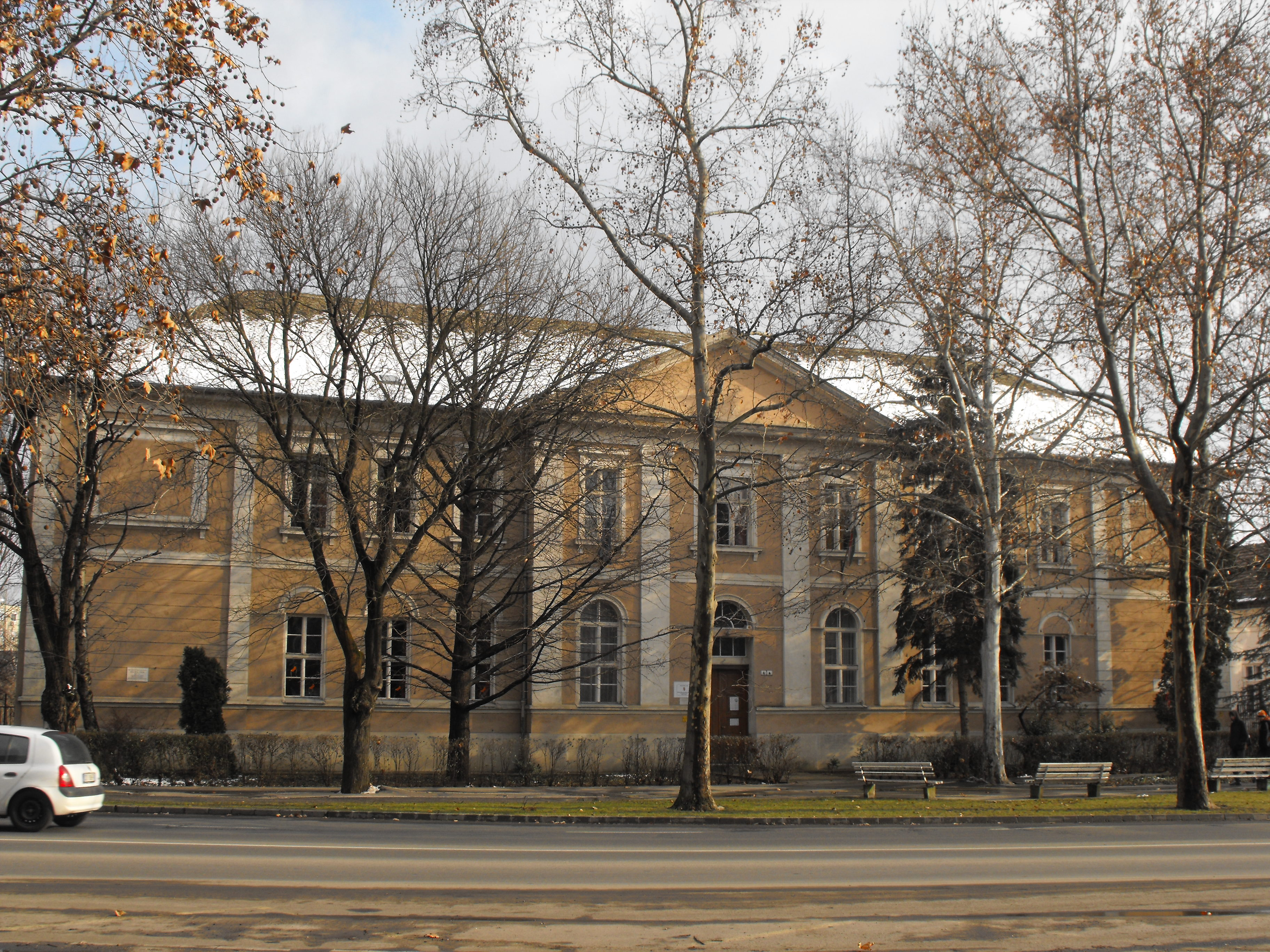 The bulding of the Bartók Béla Music School is Makó, Hungary.